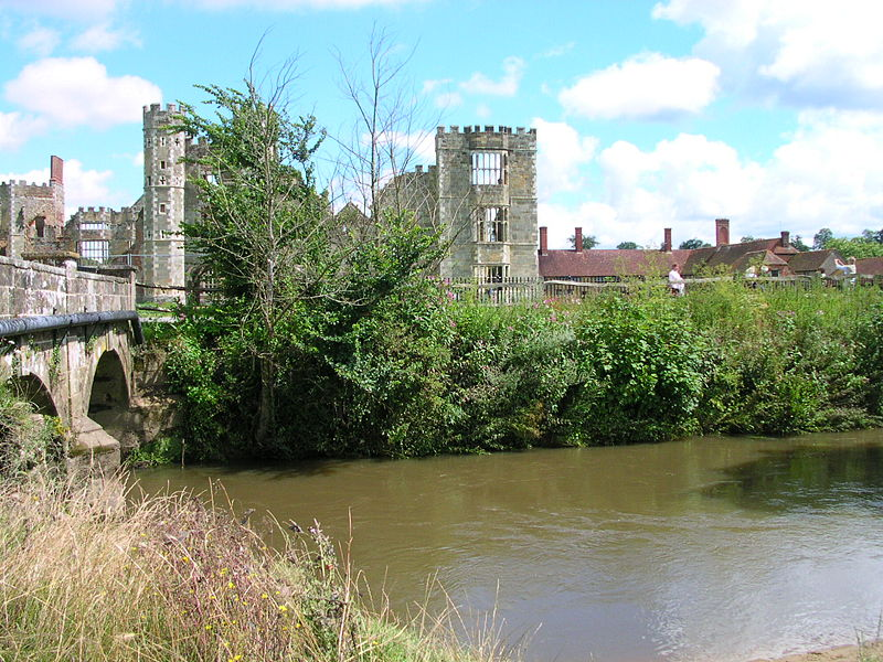 The western River Rother beside Cowdray House at Midhurst, West Sussex, England.